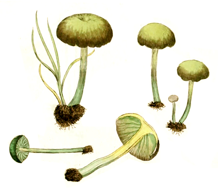 Mousepee Pinkgill (Entoloma incanum)